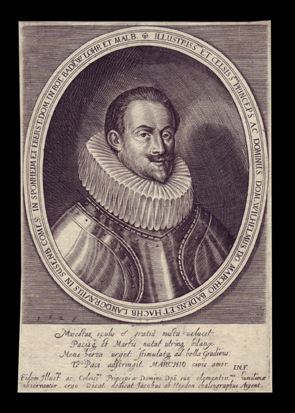 Illustriss et Celsis Princeps Dominus Dom Wilhelmus Marchio Badens et Hachb Landgravius in Susenb comes in Sponheim et Eberst Dom in rot Badew. Lohr. et Malb.[Wilhelm, Markgrave of Baden] (Medium Copper engraving Date 1628 Size Image 150 x 121 mm Notes Wilhelm, Markgrave of Baden, 1599-1677)